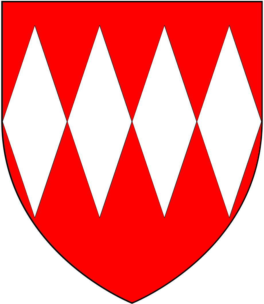 Arms of Carteret: Gules, four fusils in fess argent